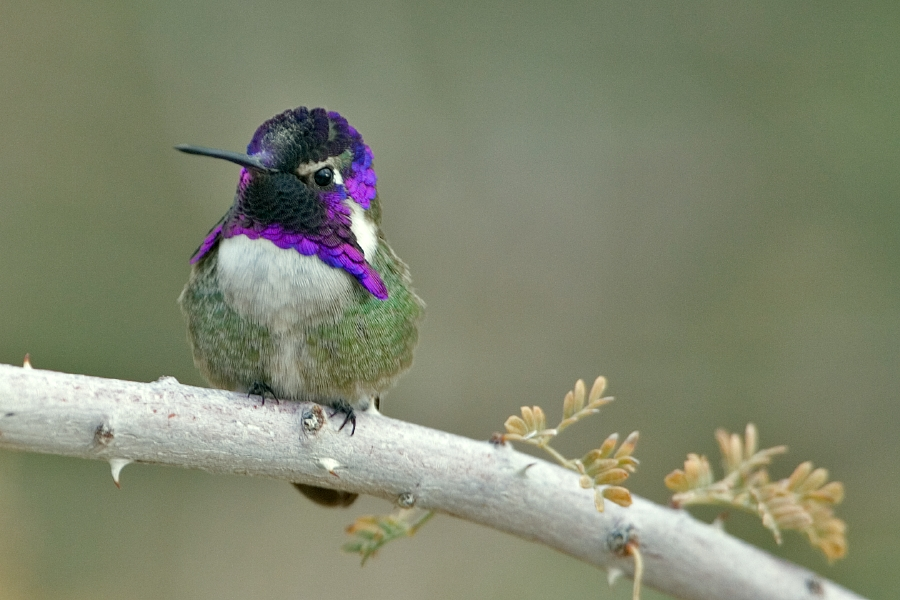 Calypte costae Costa's Hummingbird (Male), Visitor's Center, Anza Borrego Desert State Park, Borrego Springs, California